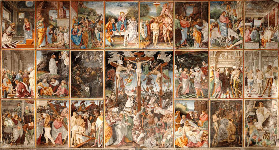 Gaudenzio Ferrari, Stories of life and passion of Christ, fresco, 1513, Church of Santa Maria delle Grazie, Varallo Sesia (VC), Italy. SCENES: Top row: Annunciation, Nativity, Visit of the Three Magi, Flight to Egypt, Baptism of Christ, Raising of Lazarus , Entry to Jerusalem, Last Supper. Middle row: Washing of feet, Agony in the Garden, Arrest of Christ, Trial before the Sanhedrin, Trial before Pilate, Flagellation. Bottom row: Ecce homo, Carrying the cross, Christ falls, Crucifixion, Deposition from the cross, Harrowing of Hell, Resurrection.